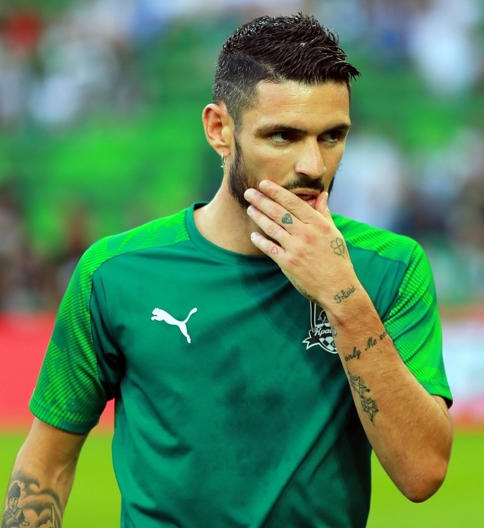 Rémy Cabella with FC Krasnodar in a game against FC Rubin Kazan.